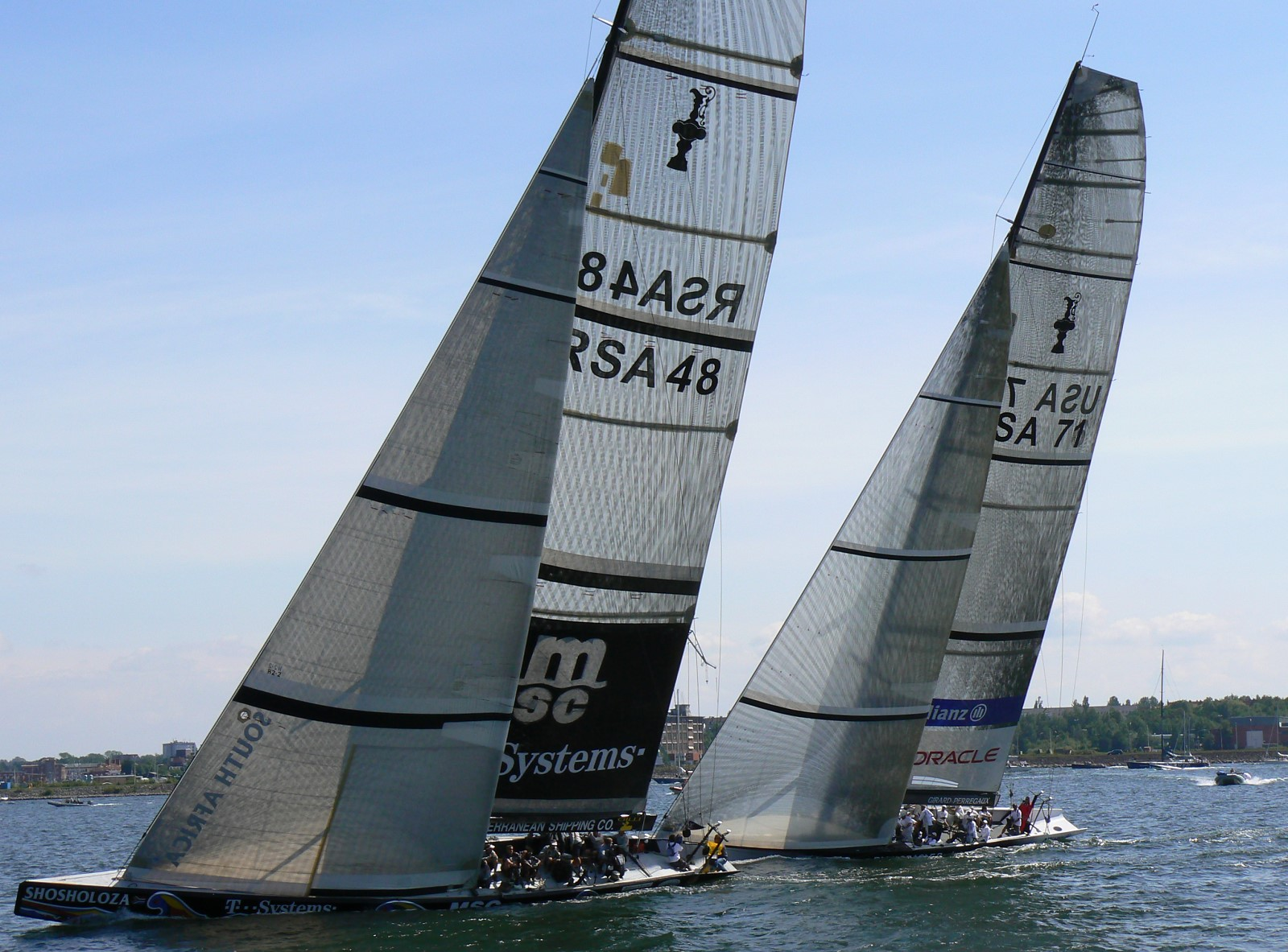 German Sailing Grand Prix Kiel 2006. Team Shosholoza + BMW Oracle Racing.